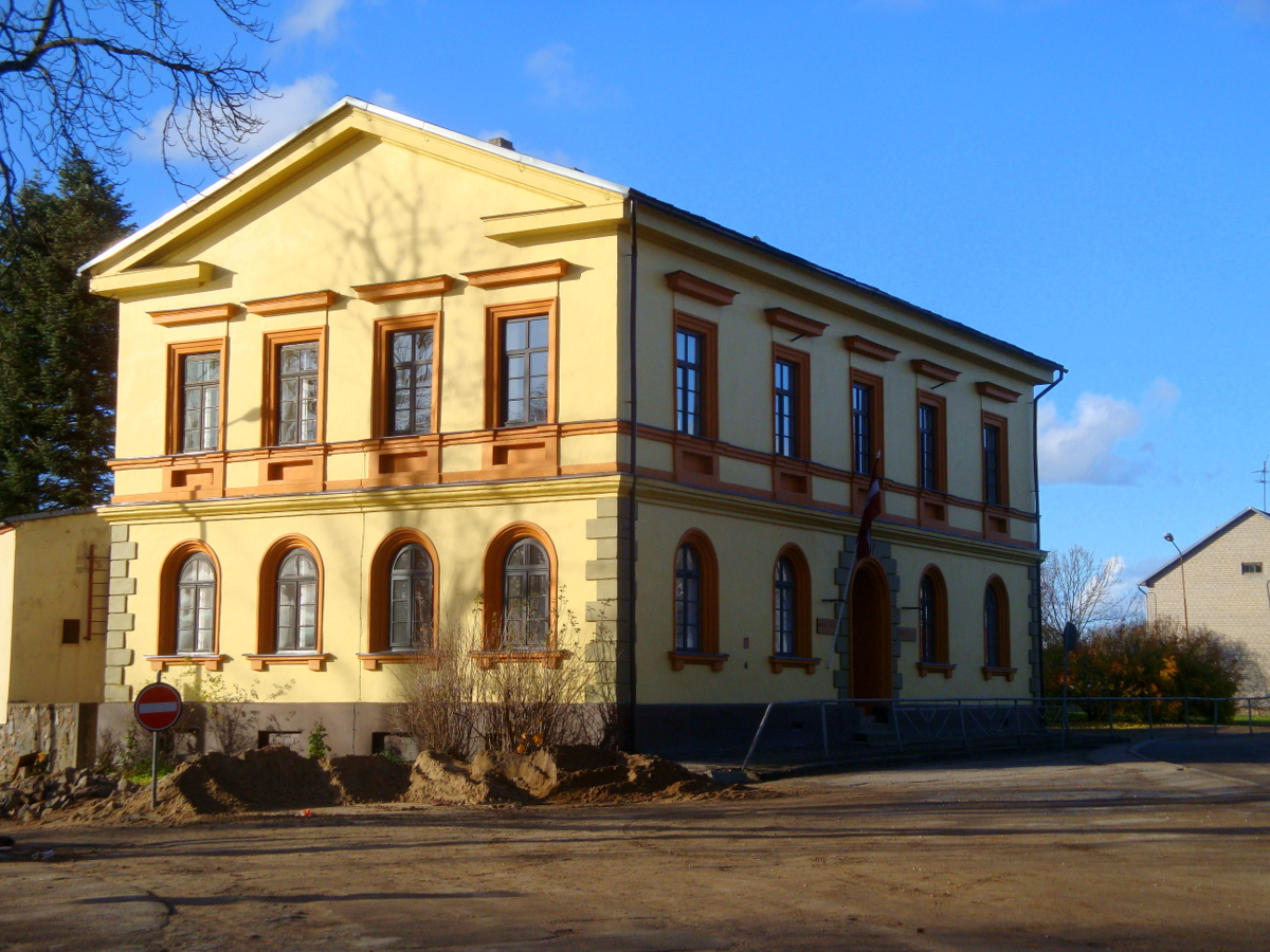 Paplaka former Railway station